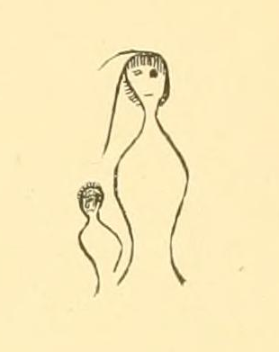 Cloud-Shield's Lakota Winter Count for the year 1873-1874. Massacre Canyon battle, Nebraska